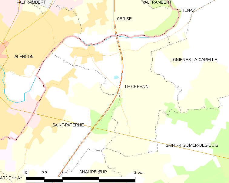 Map of French municipality